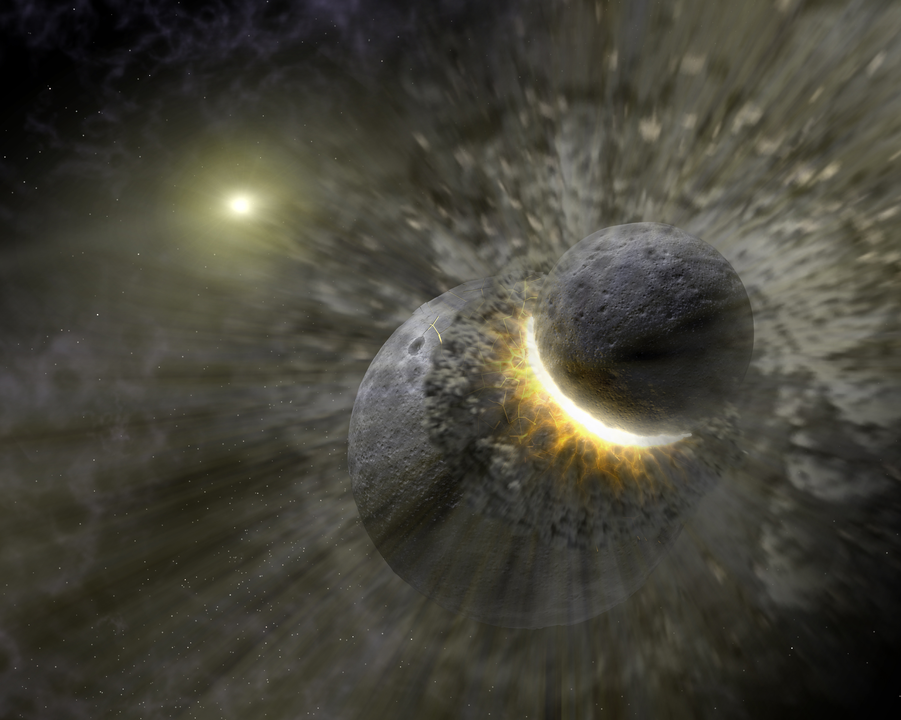 This artist concept illustrates how a massive collision of objects, perhaps as large as the planet Pluto, smashed together to create the dust ring around the nearby star Vega. New observations from NASA's Spitzer Space Telescope indicate the collision took place within the last one million years. Astronomers think that embryonic planets smashed together, shattered into pieces, and repeatedly crashed into other fragments to create ever finer debris. In the image, a collision is seen between massive objects that measured up to 2,000 kilometers (about 1,200 miles) in diameter. Scientists say the big collision initiated subsequent collisions that created dust particles around the star that were a few microns in size. Vega's intense light blew these fine particles to larger distances from the star, and also warmed them to emit heat radiation that can be detected by Spitzer's infrared detectors